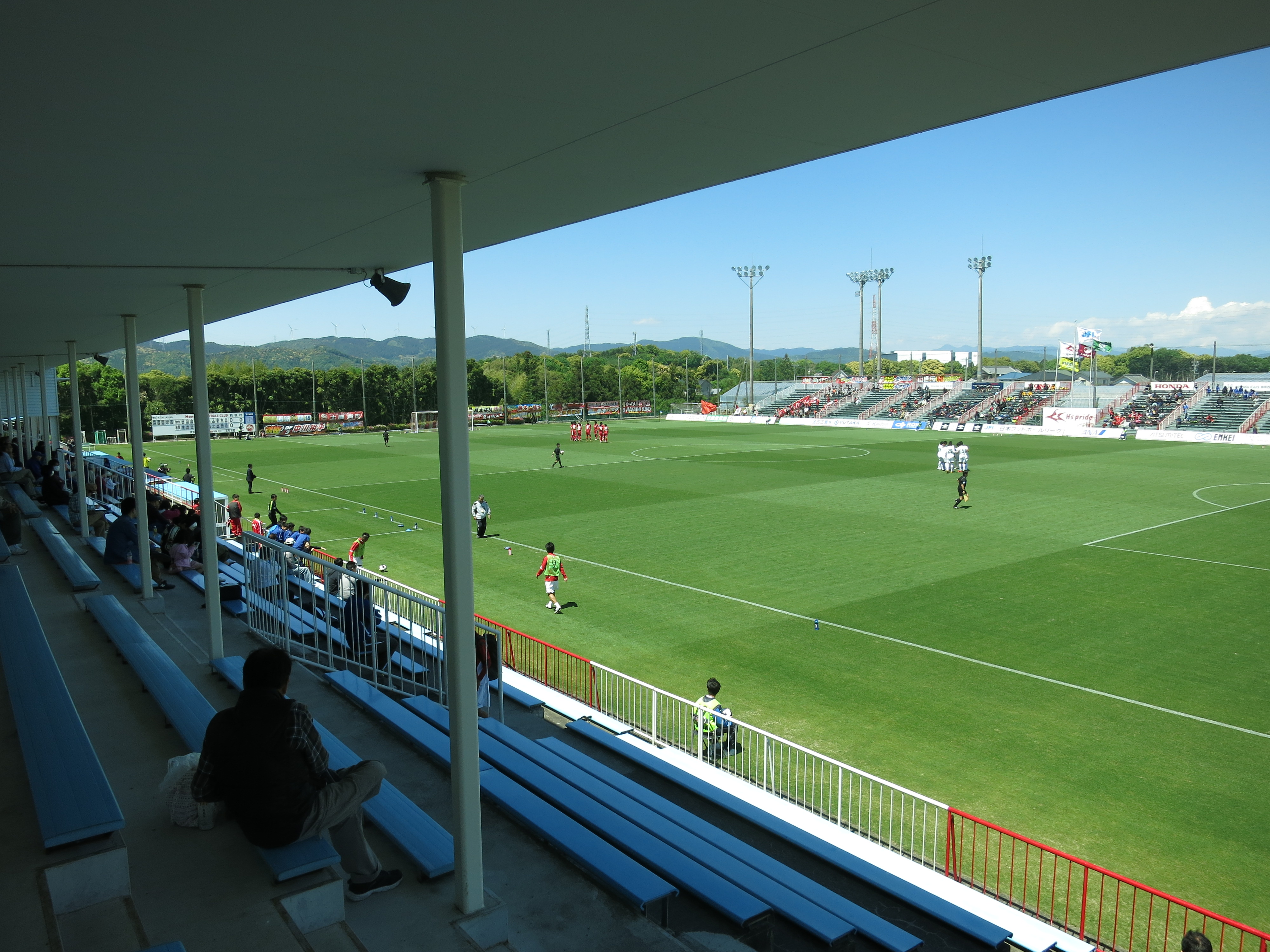 HondaFC Miyakoda Soccer Stadium